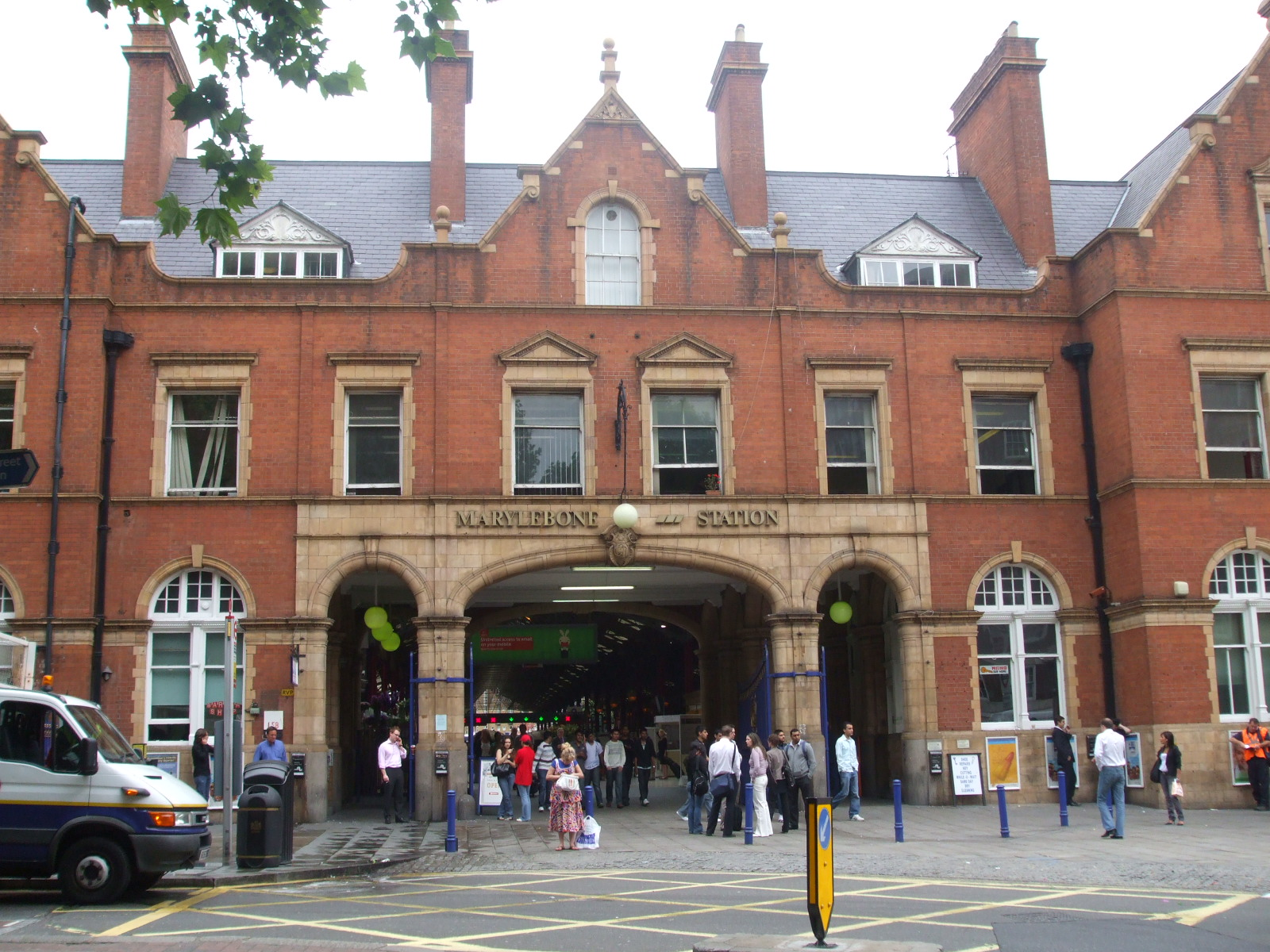 Entrance to London Marylebone railway station